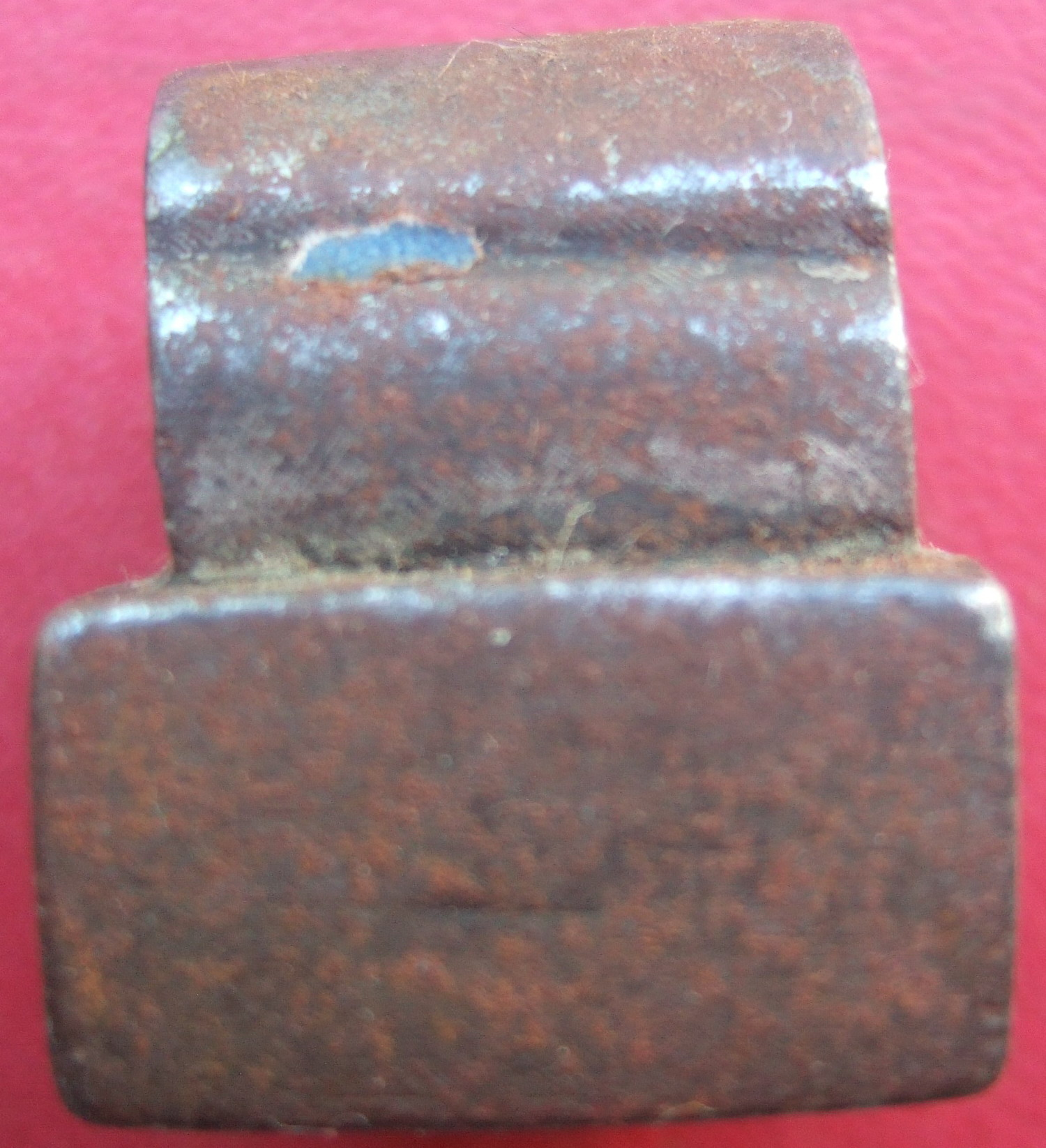 Tibetan ring shaped iron seal, no. 6